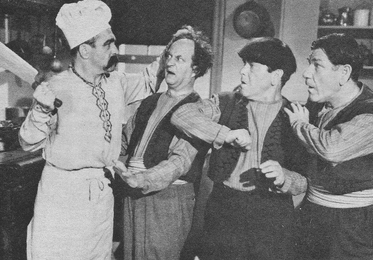 Curly (as cook), Shemp, Larry, and Moe altogether in this very nice scene from the short "Malice in the Palace". This scene features a slim thinner Curly with a head full of hair, and a false handlebar mustache. This scene was deleted from the final release. However, there are publicity photos of this scene.